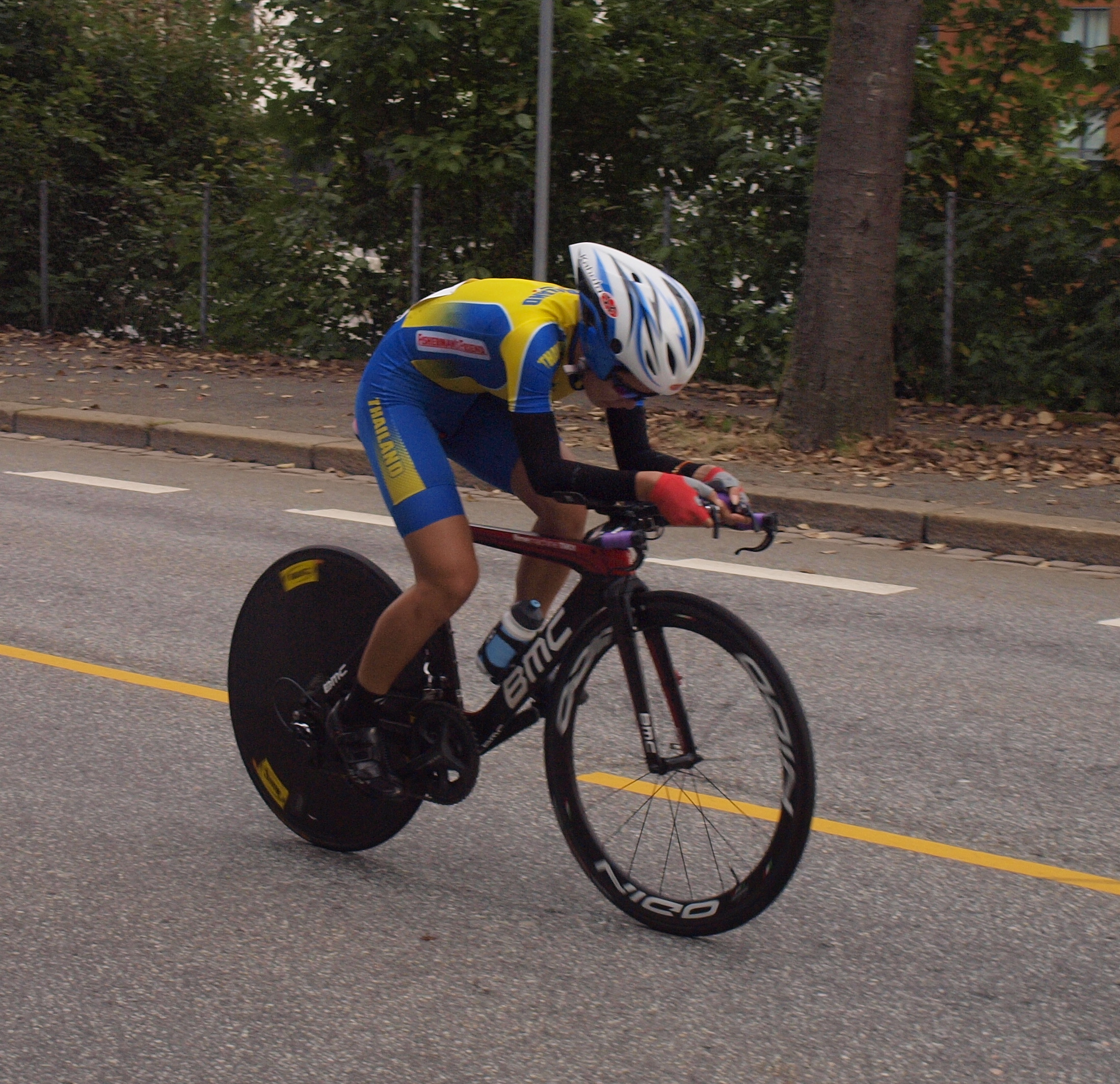 Chaniporn Batriya at the 2017 UCI World Championships